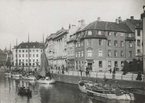 Ved Stranden in Copenhagen, Denmark.